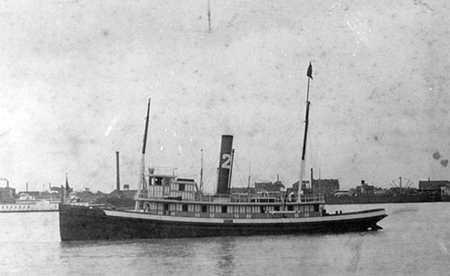 From U.S. Navy public domain Photo #: NH 102342 Underwriter (American Tug, 1881) Photographed prior to World War I, probably off New Orleans, Louisiana. Built in 1881 and rebuilt in 1903, this tug was acquired by the Navy on 1 July 1918 and commissioned on 9 August of that year as USS Underwriter (ID # 1390). Later redesignated YT-44, she was renamed Adirondack on 15 October 1920 and sold on 6 June 1922. The original print is in National Archives' Record Group 19-LCM. U.S. Naval Historical Center Photograph.